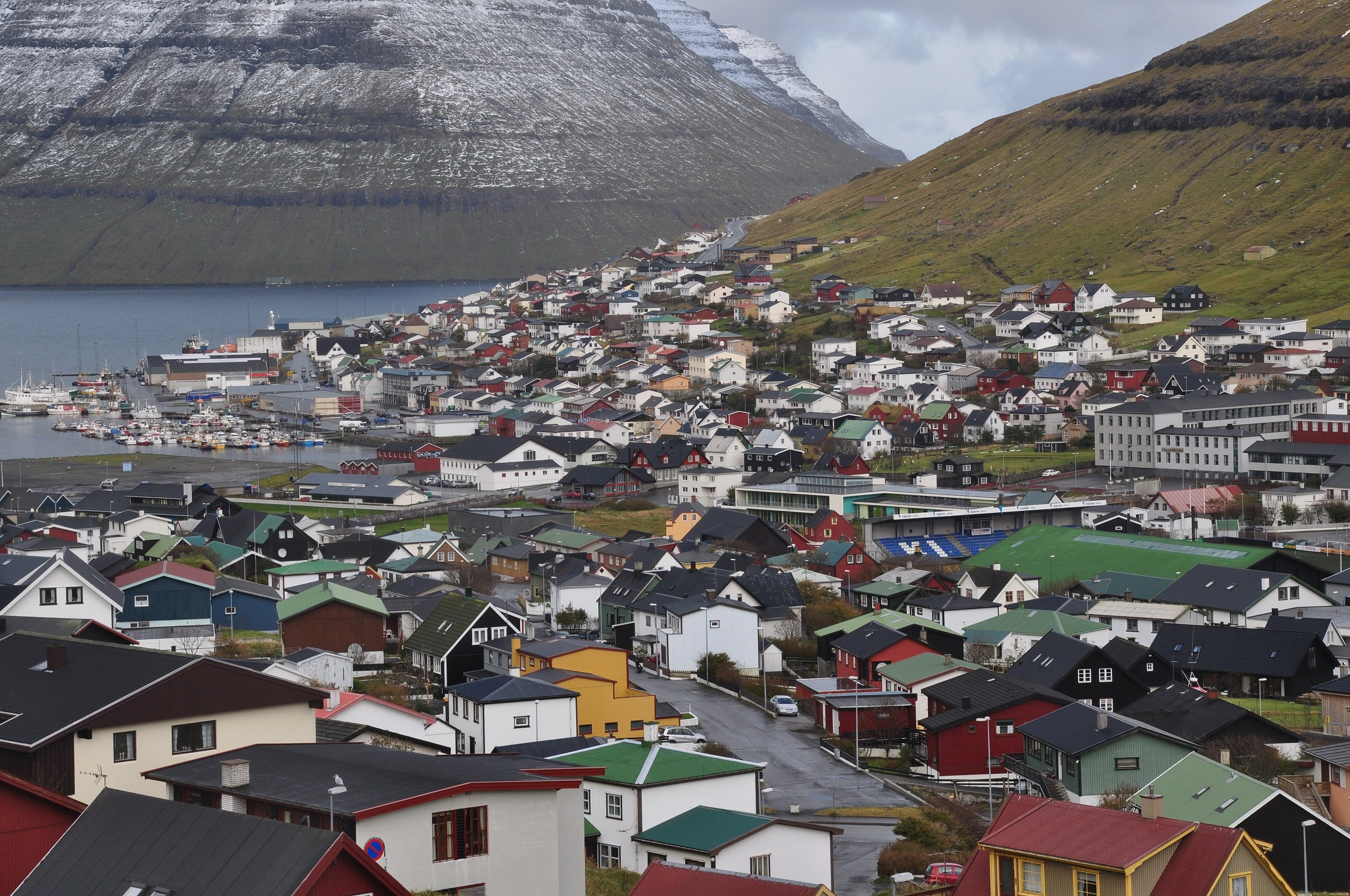 Klaksvík (Borðoy, Faroe Islands, Denmark) is quite a metropolis by Faroe Island standards.